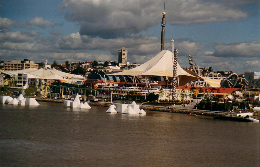 Expo '88 (photo taken from the Victoria Bridge (on the Brisbane River), in Brisbane, Queensland, Australia